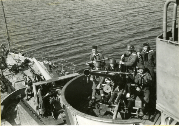 Forward anti aircraf gun on the Swedish cruiser HMS Clas Fleming.